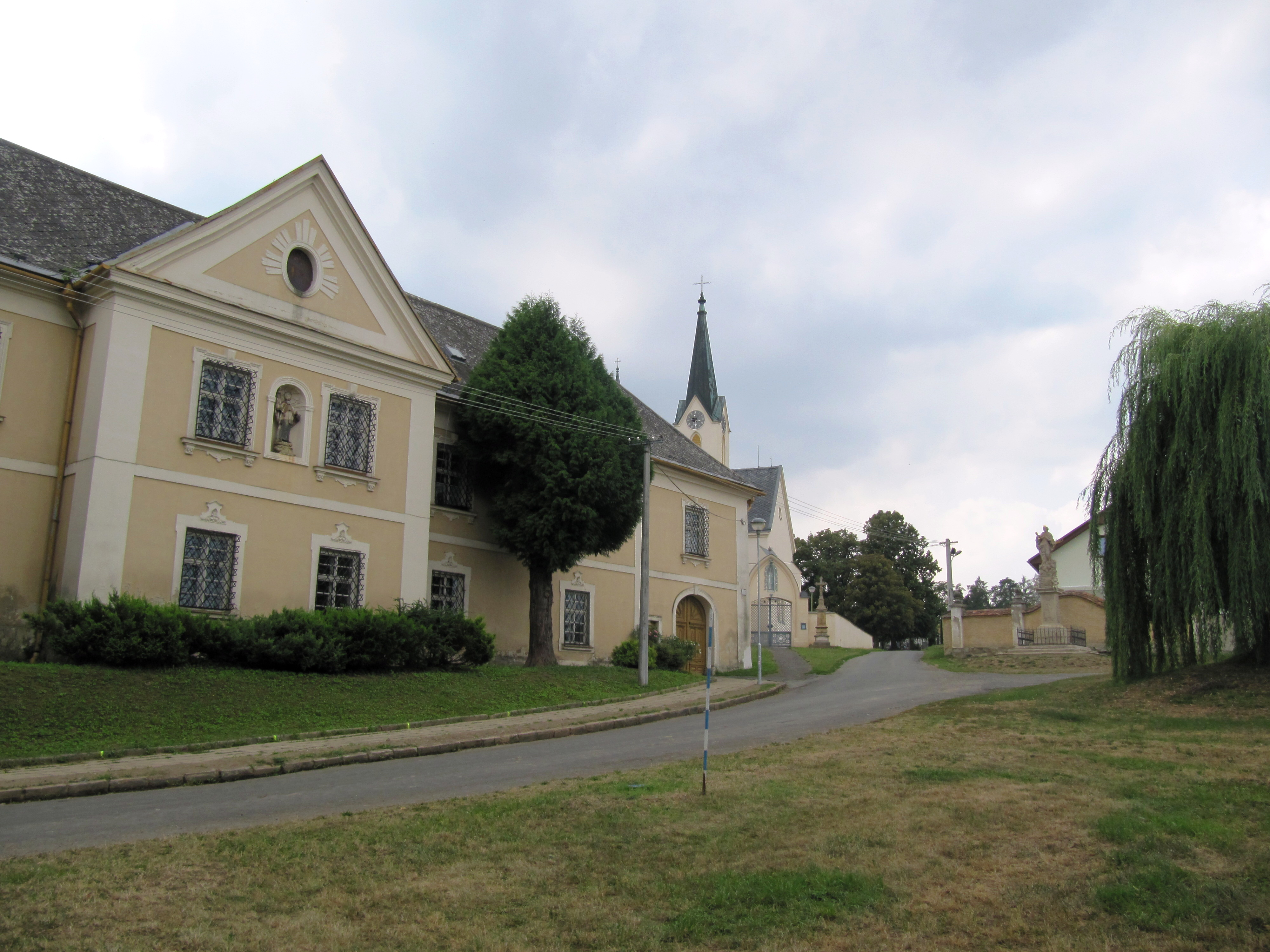 Cholina in Olomouc District, Czech Republic. The most important monuments of the village: rectory, standing on the site of a fortress, the church of the Assumption of the Virgin Mary and Baroque statue of St. Barbara.